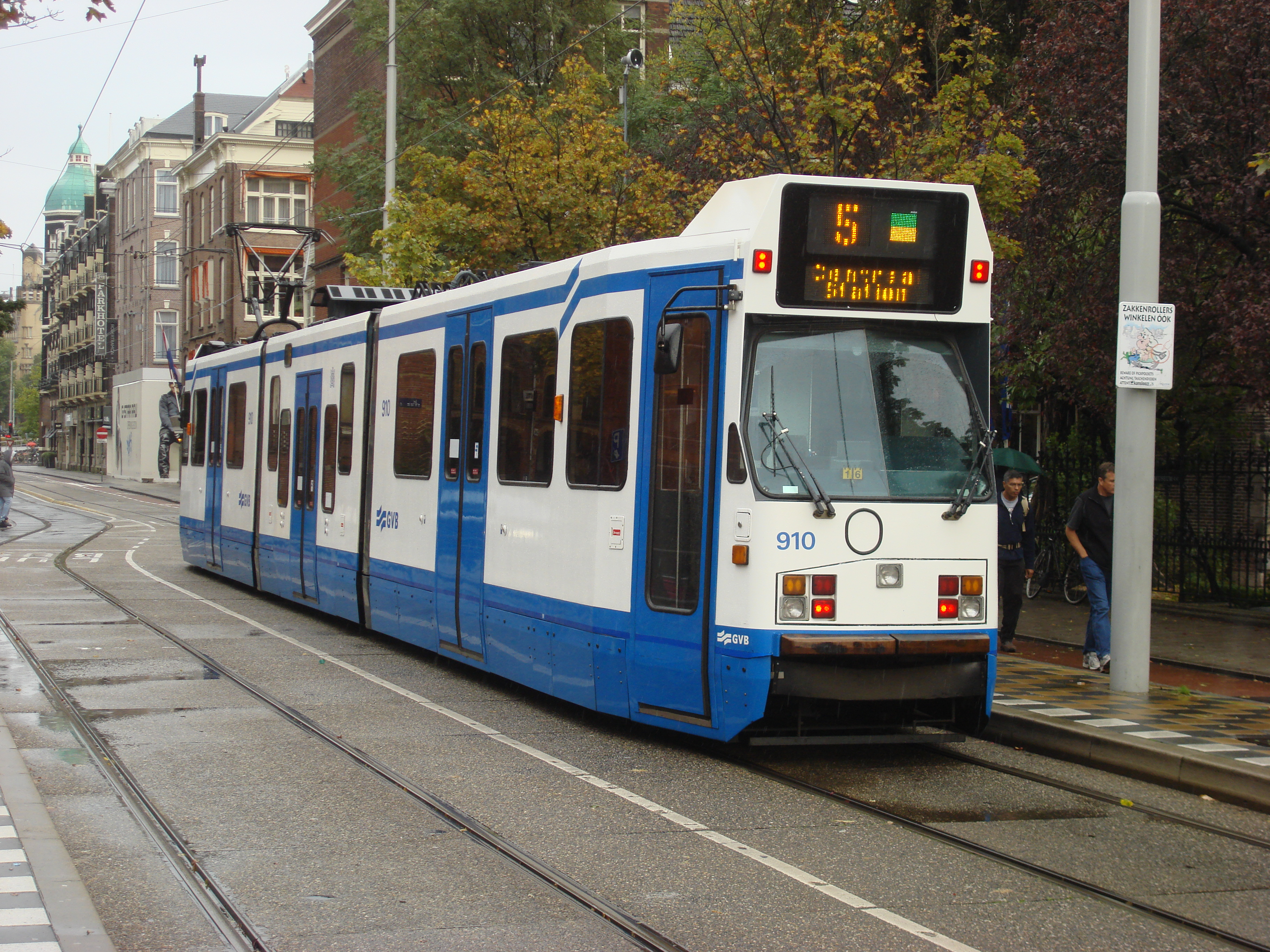 Gemeentelijk Vervoerbedrijf (GVB) tram 910